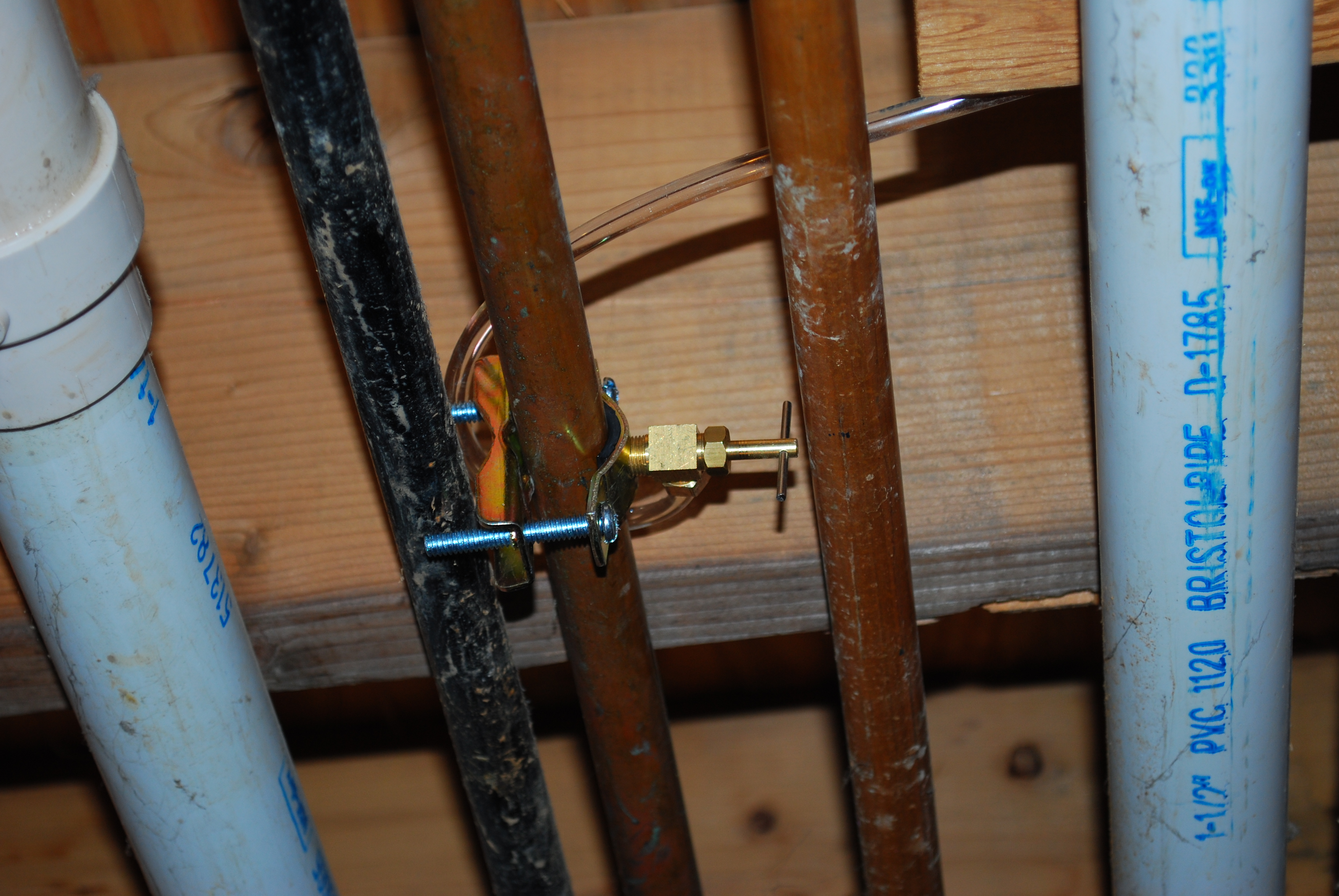 A saddle valve connecting a humidifier's water intake to a cold water pipe.